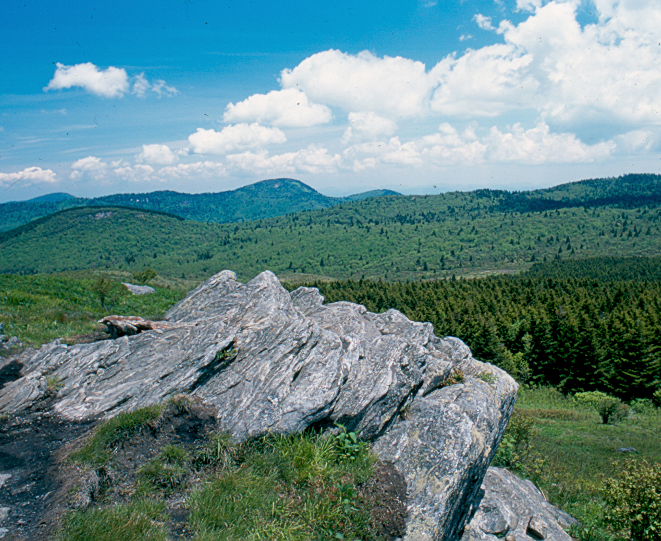 Rock outcropping in Shining Rock Wilderness Area, North Carolina, USA